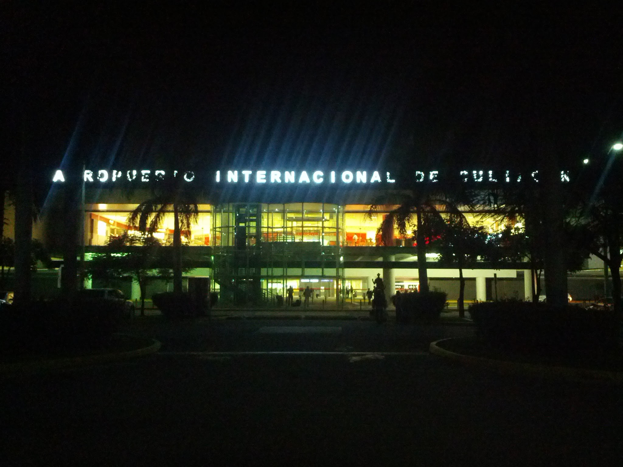 Culiacan International Airport at night